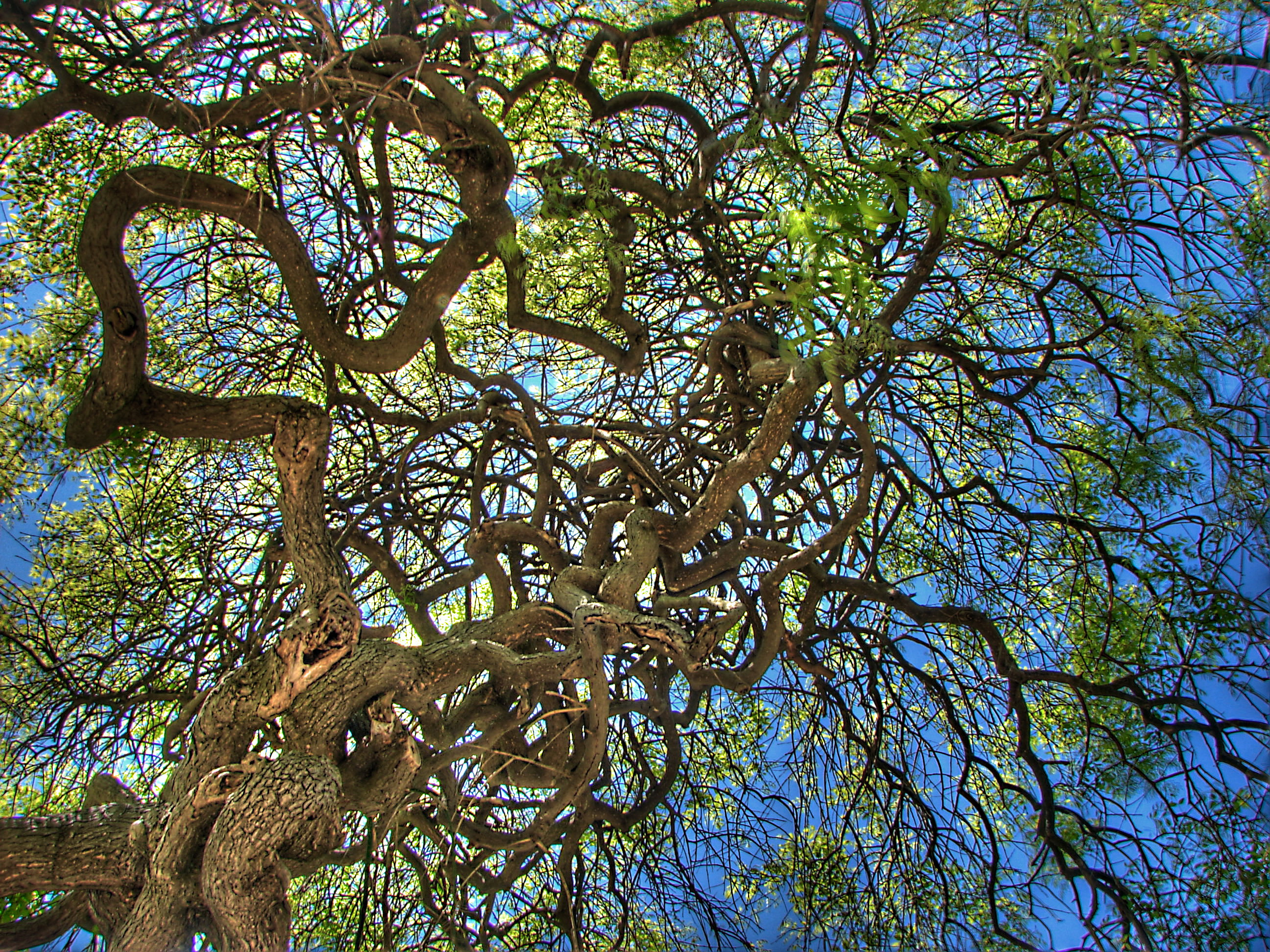 Branches of Morus (plant), Emirgan Park, Istanbul. HDR image